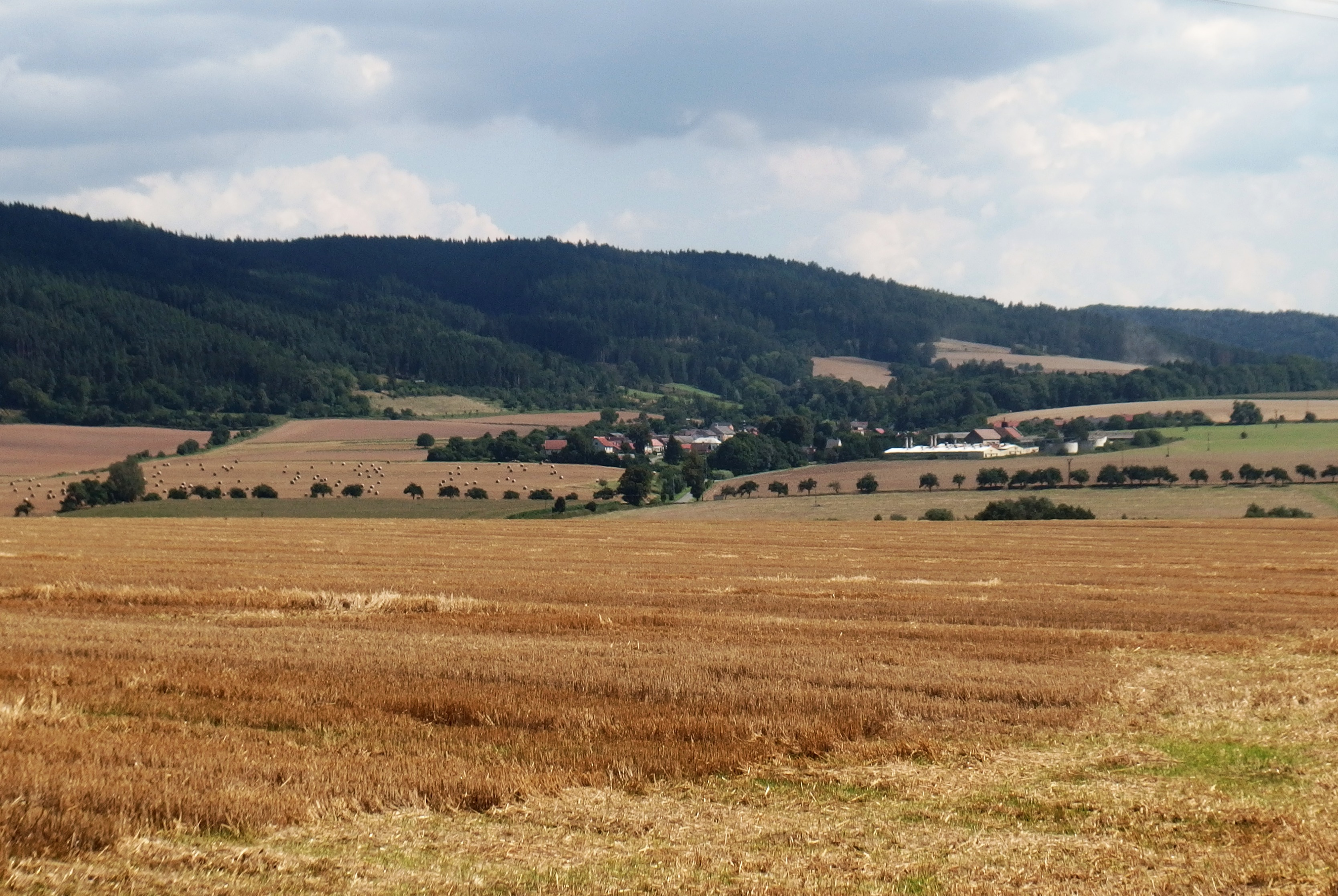 Bezděčí u Trnávky, Svitavy District, Czech Republic.